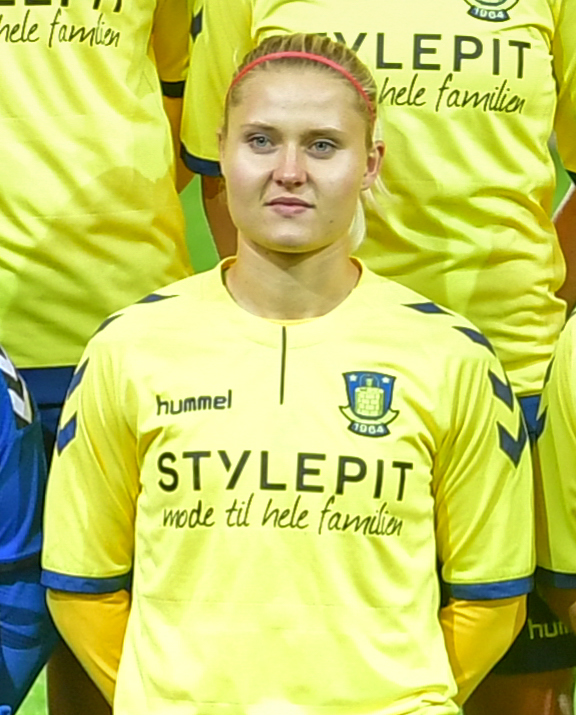 2016/10/05 UEFA Women's Champions League - SKN St. Poelten vs Broendby IF.